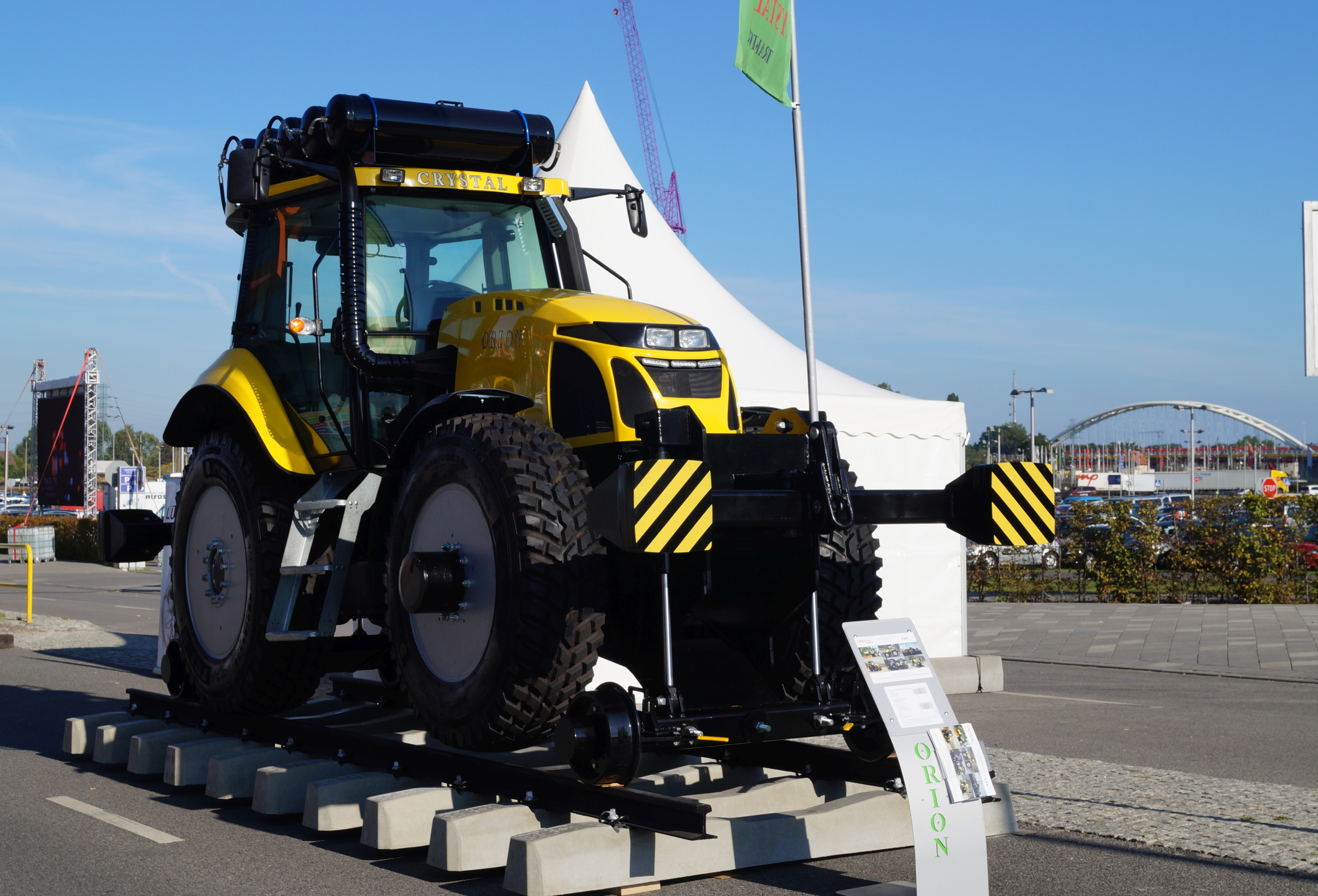 The making of this document was supported by Wikimedia Polska Association, within Wikigrant no. WG 2015-34. Przód traktora Crystal Orion wystawianego na Targach Trako 2015